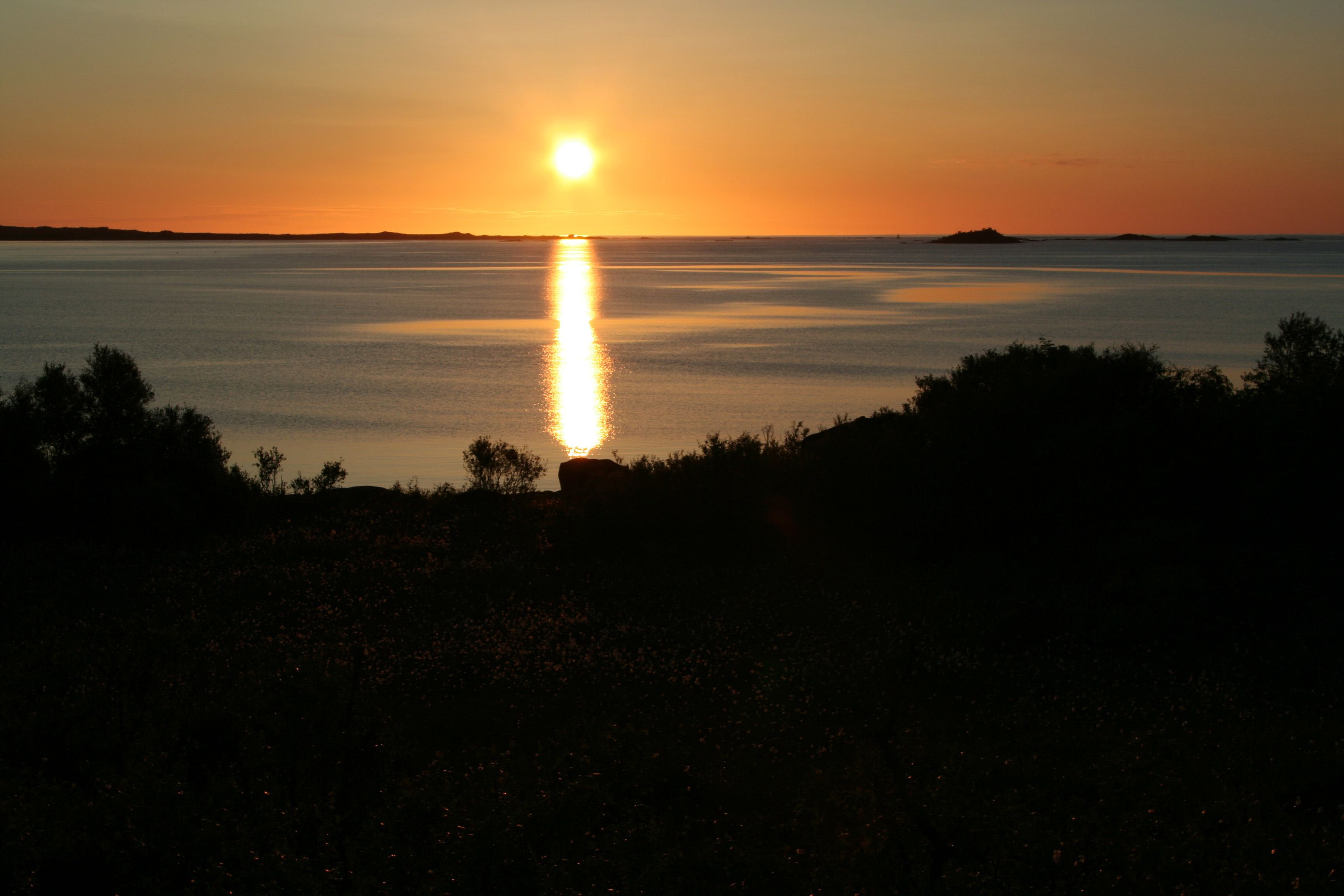 Picture of the midnight sun, taken at Holm, Sortland, Norway on 10 July 2006. This picture was taken by me.